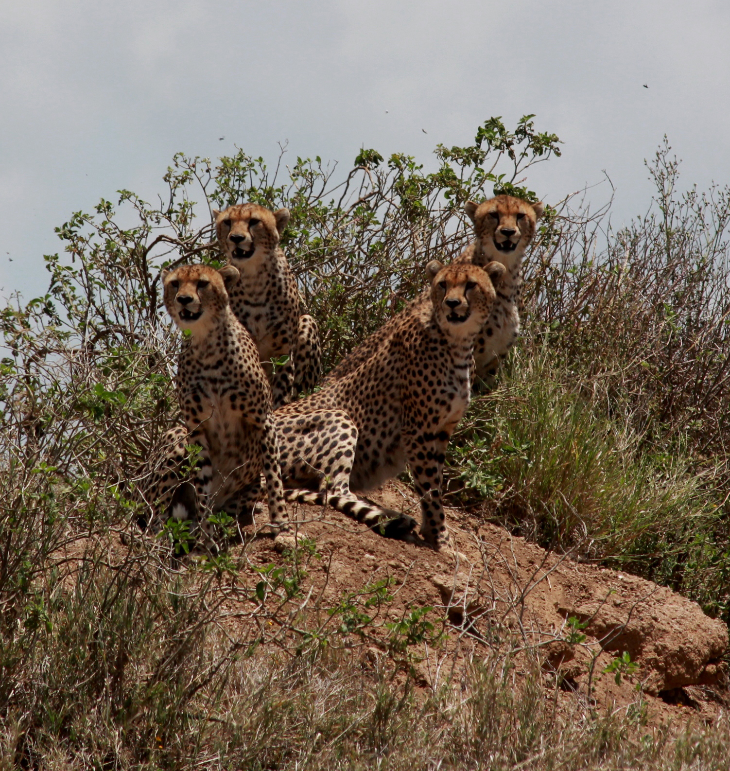 Four cheetahs at the Serengeti National Park.